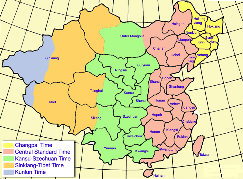 The time zones of the Republic of China (on the mainland from 1912 to 1949, Taiwan and the Pescadores retroceded in 1945) This map was drawn by Alan Mak for Wikipedia.